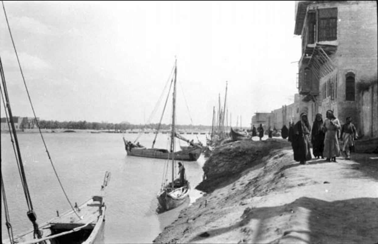 al kufa city pictures